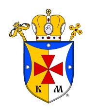 coat of arms